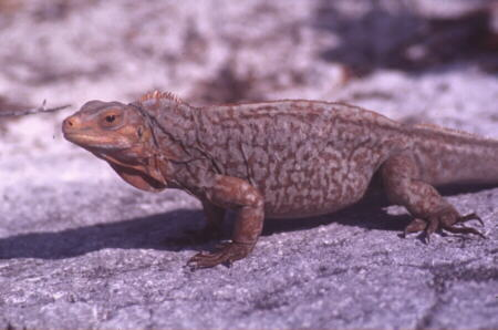 Photo of Cyclura rileyi cristata taken by Dr. William Hayes and uploaded with his permission.